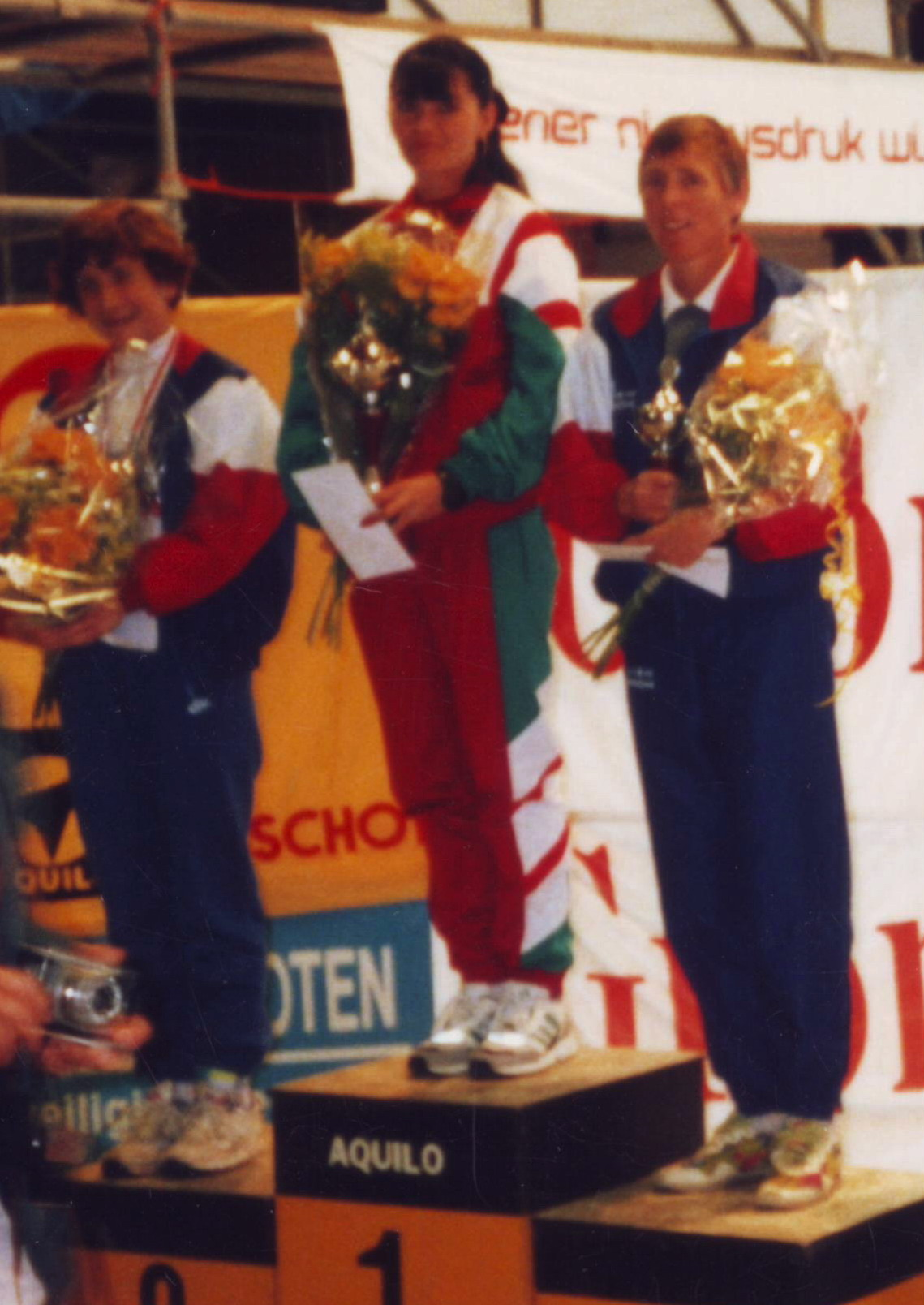 IAU European Championships, Ladies' podium, 100km run, Winschoten, The Netherlands, 1993 Left to right: Hilary Walker, Márta Vass (European champion, Hungary), Eleanor Adams-Robinson (GBR)